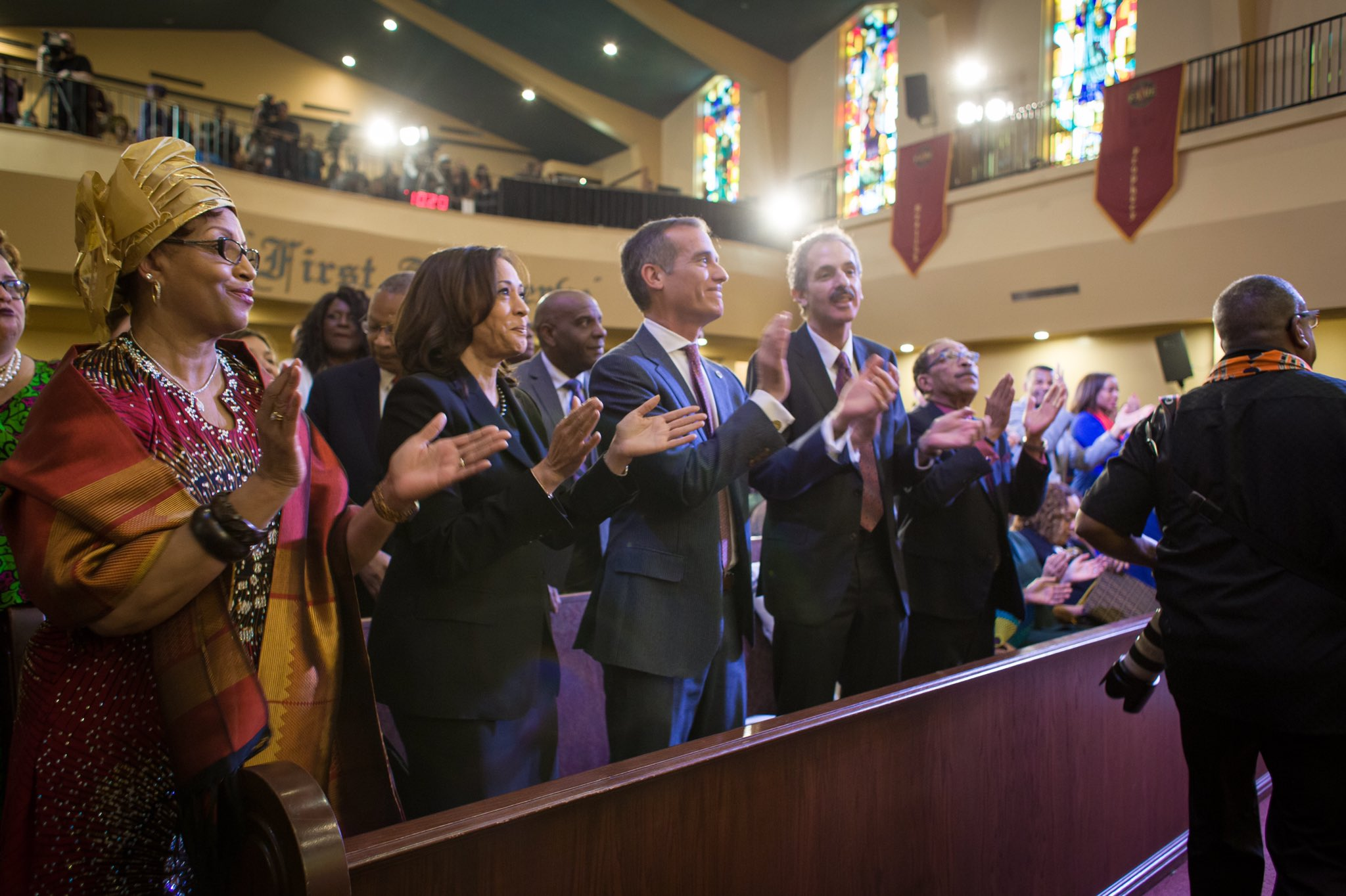 Honored to spend my morning with @MayorOfLA Eric Garcetti and worshippers at the First AME Church of Los Angeles. It's so important that we recognize the history and longstanding legacy of the Black church, not just during Black History Month but every month.